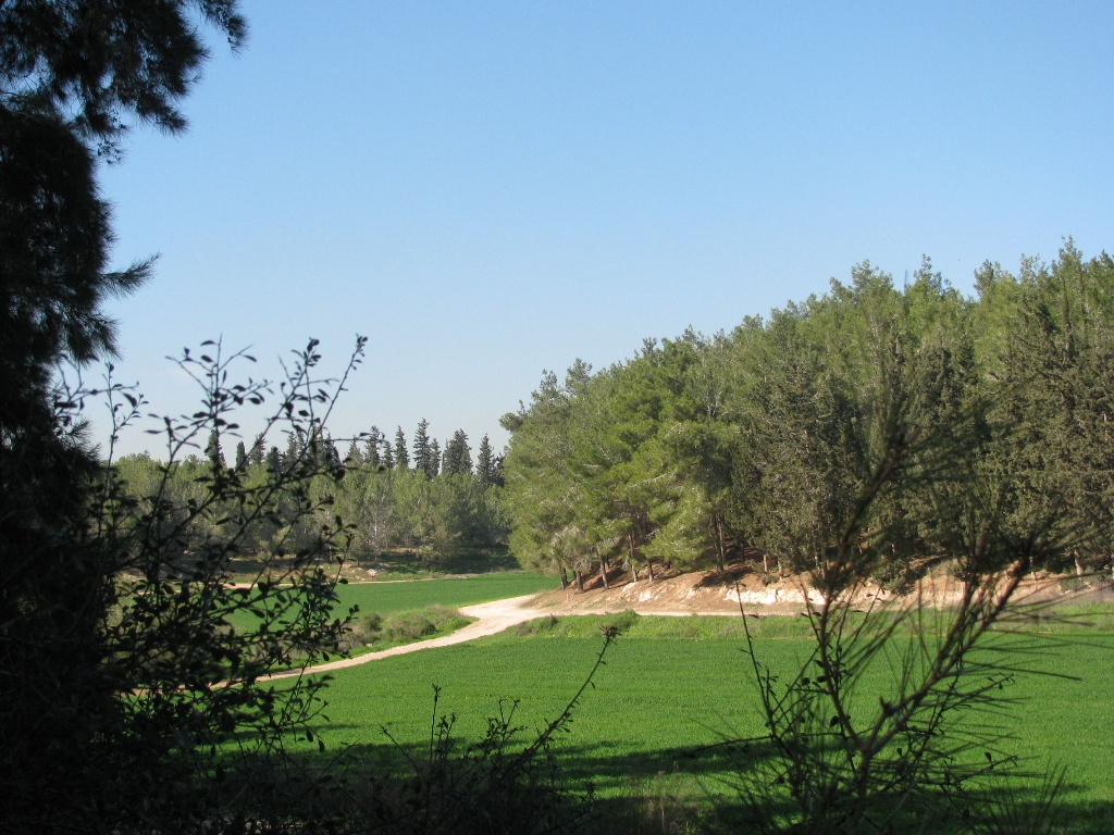 Designs in Nature